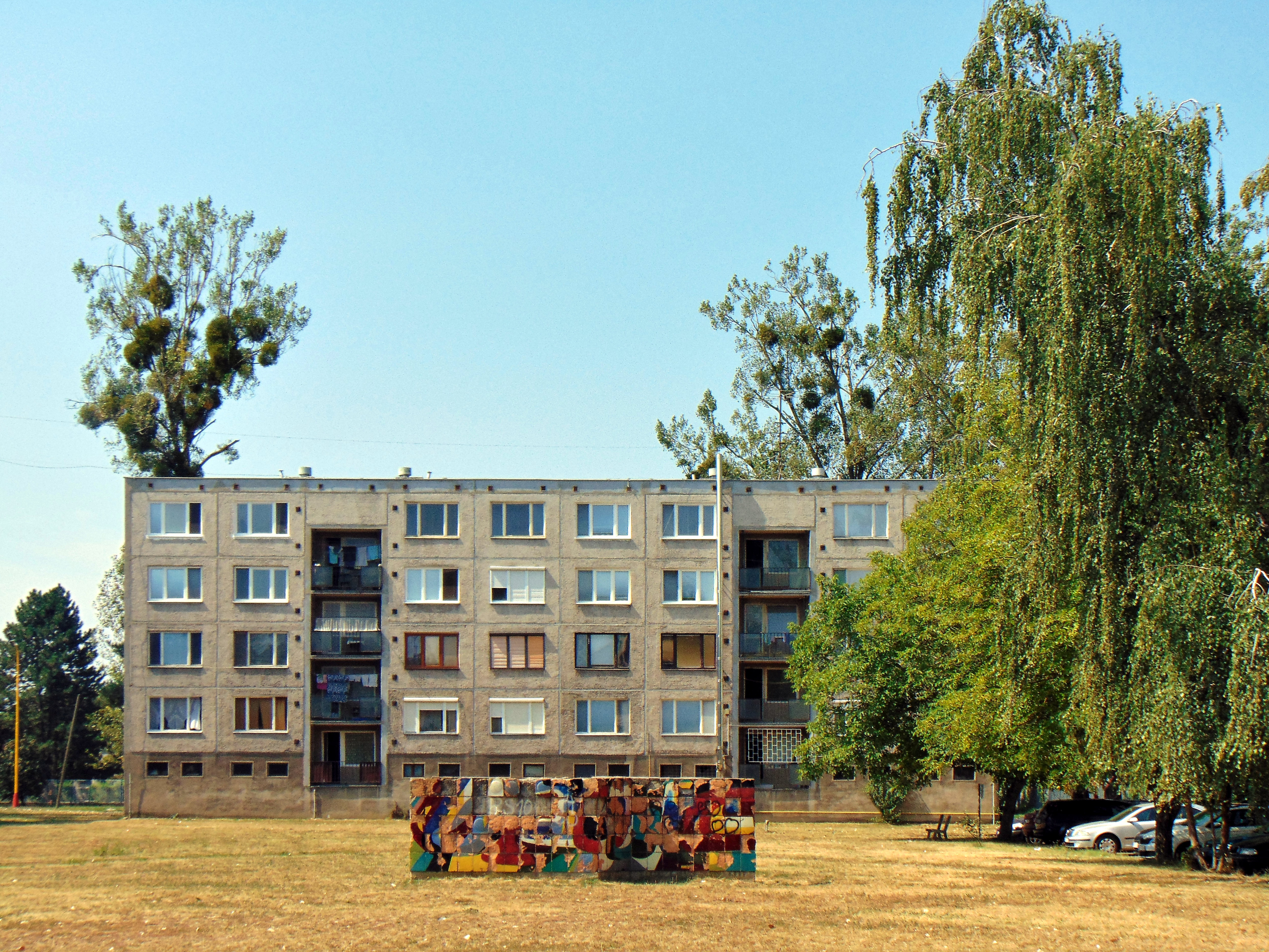 A housing estate in Čierna nad Tisou, eastern Slovakia.